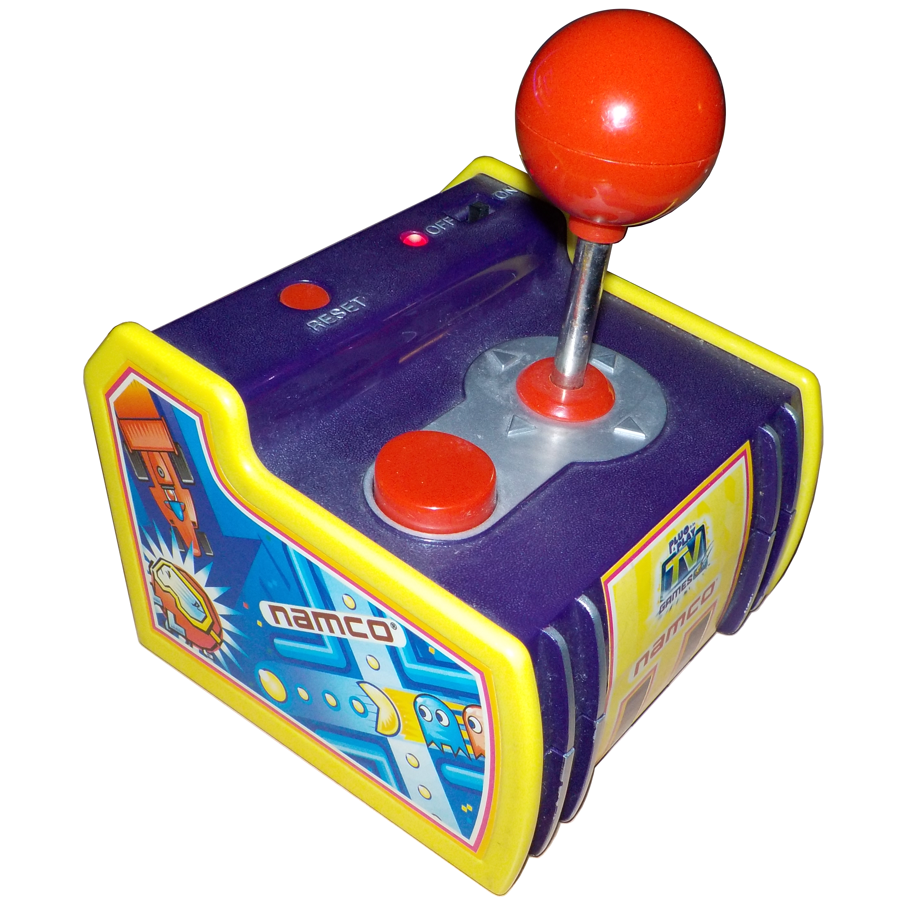 This is the first release of Namco TV Games by Jakks Pacific.